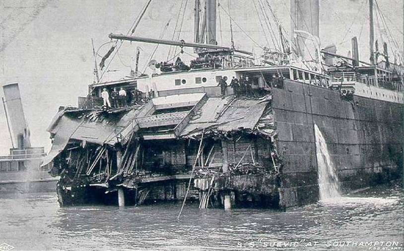 White Star liner Suevic wrecked at the Lizard